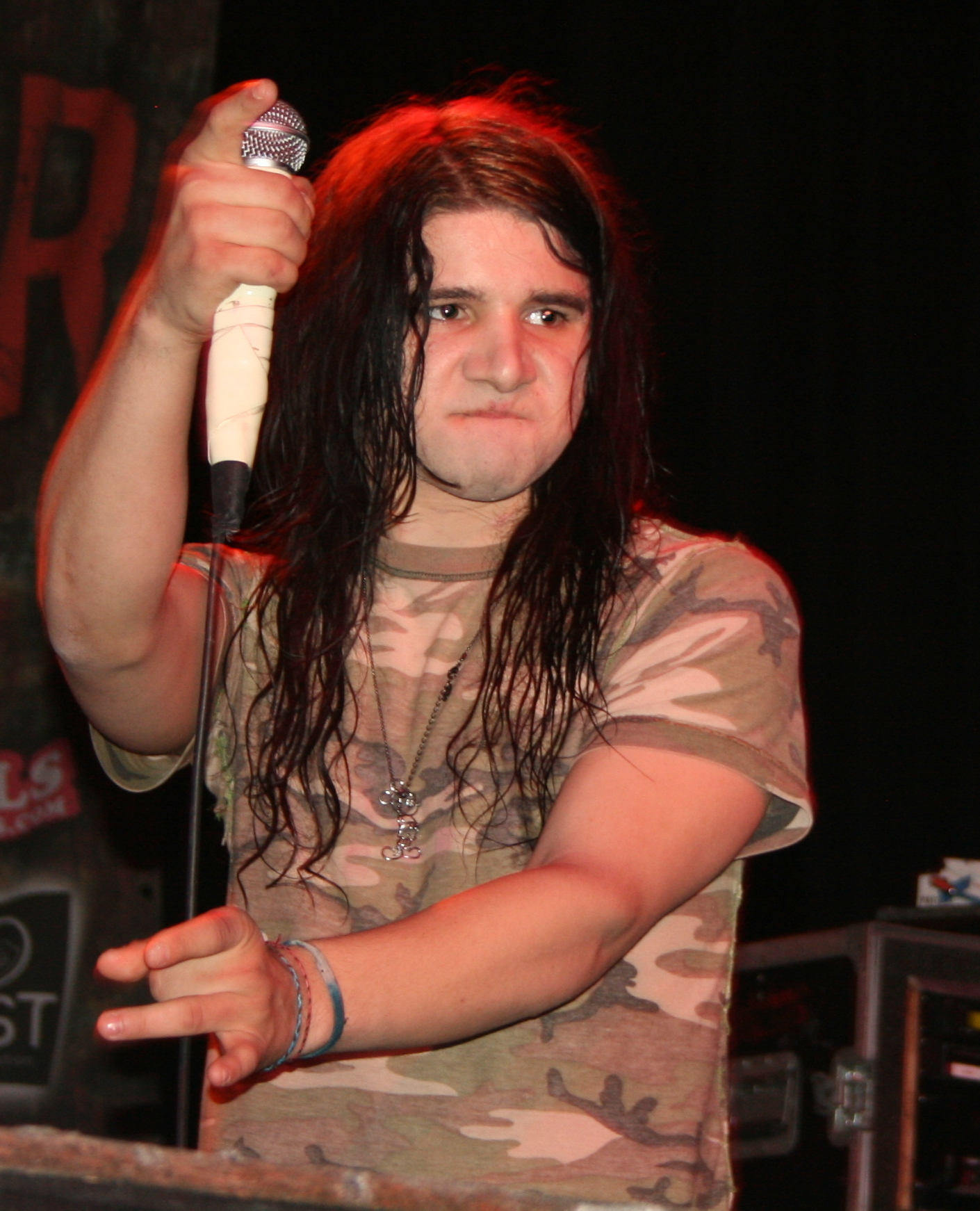 Sonny Moore in 2008